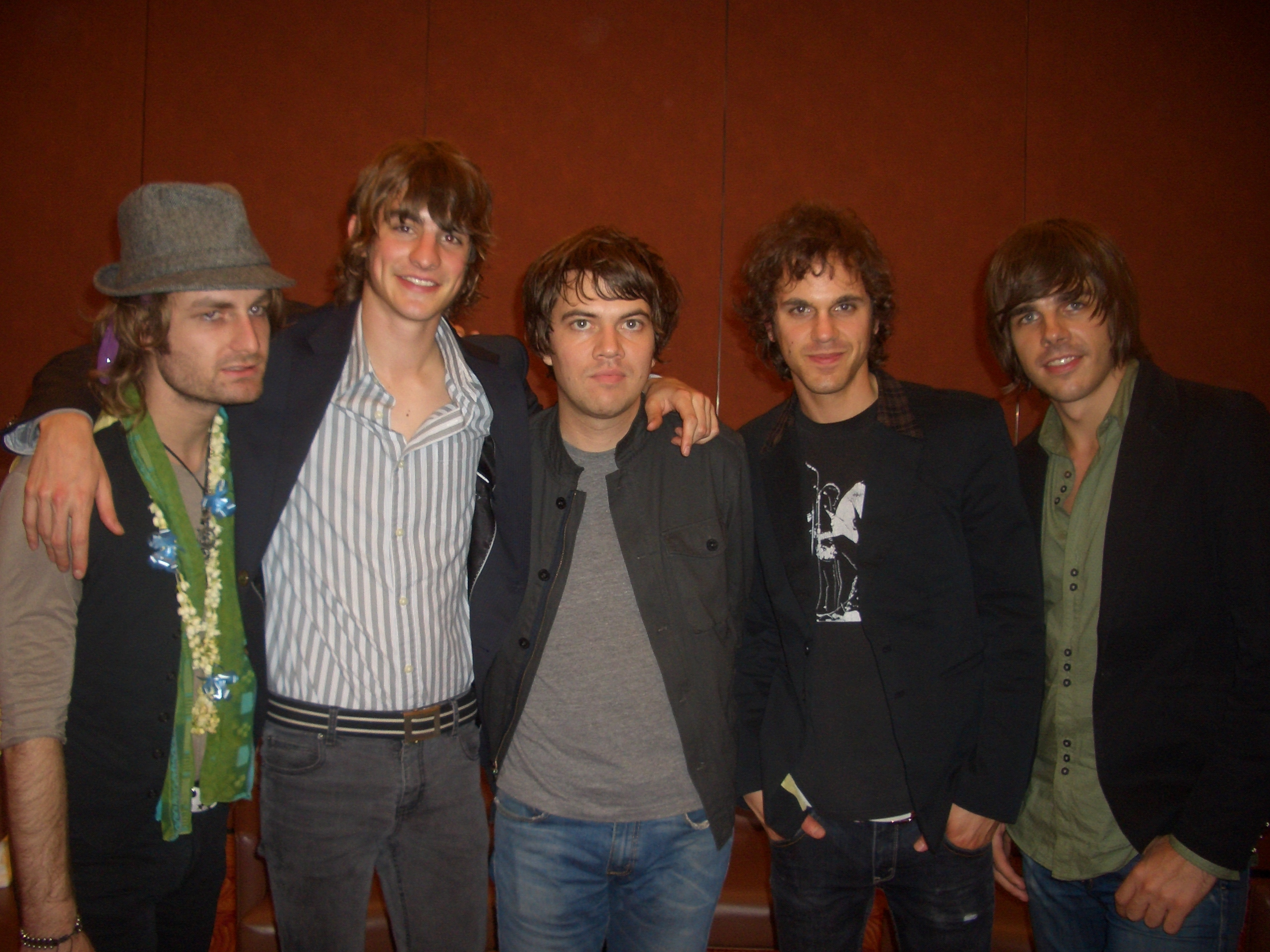 The Click Five at their Manila Press Conference